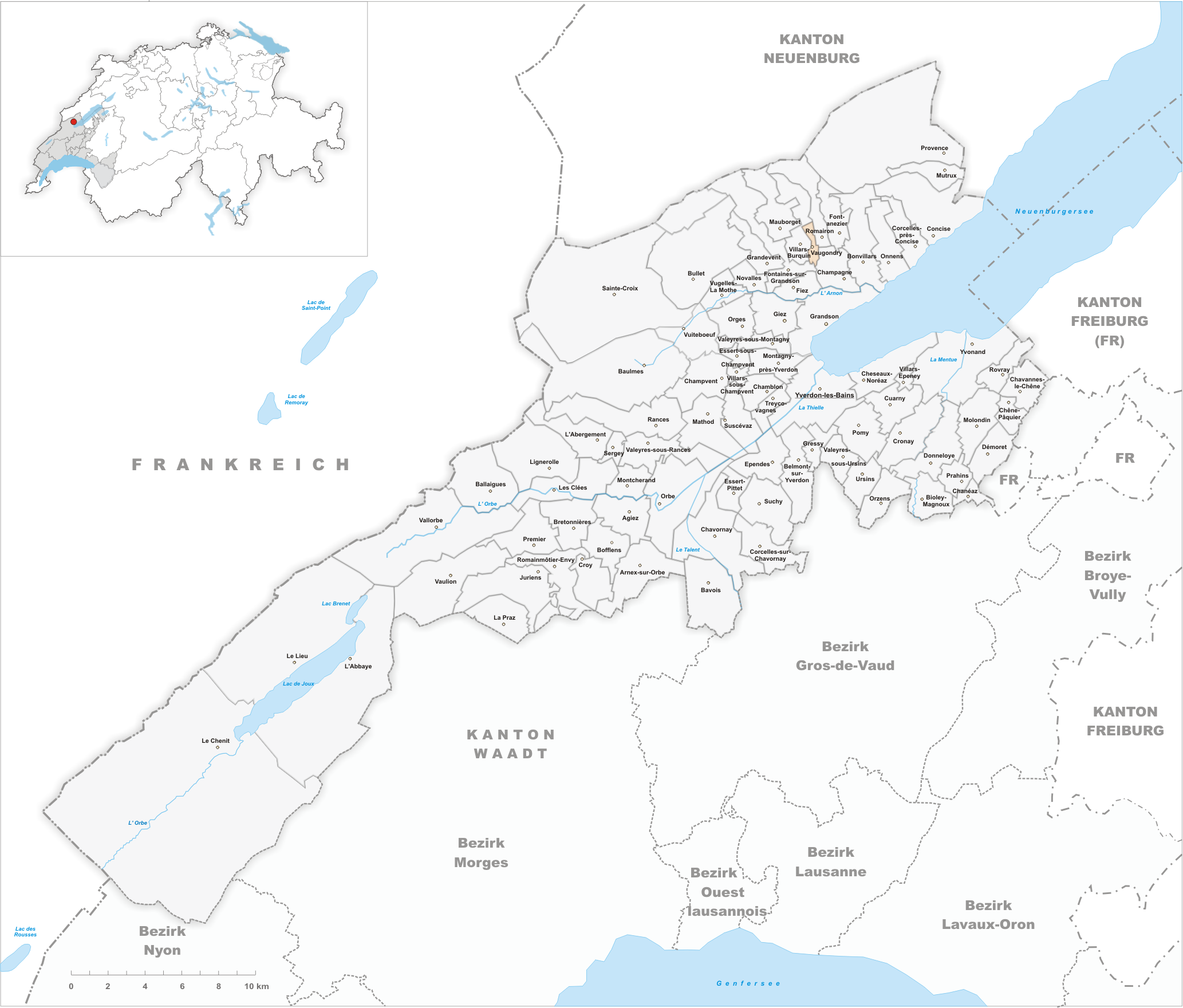 Municipality Vaugondry